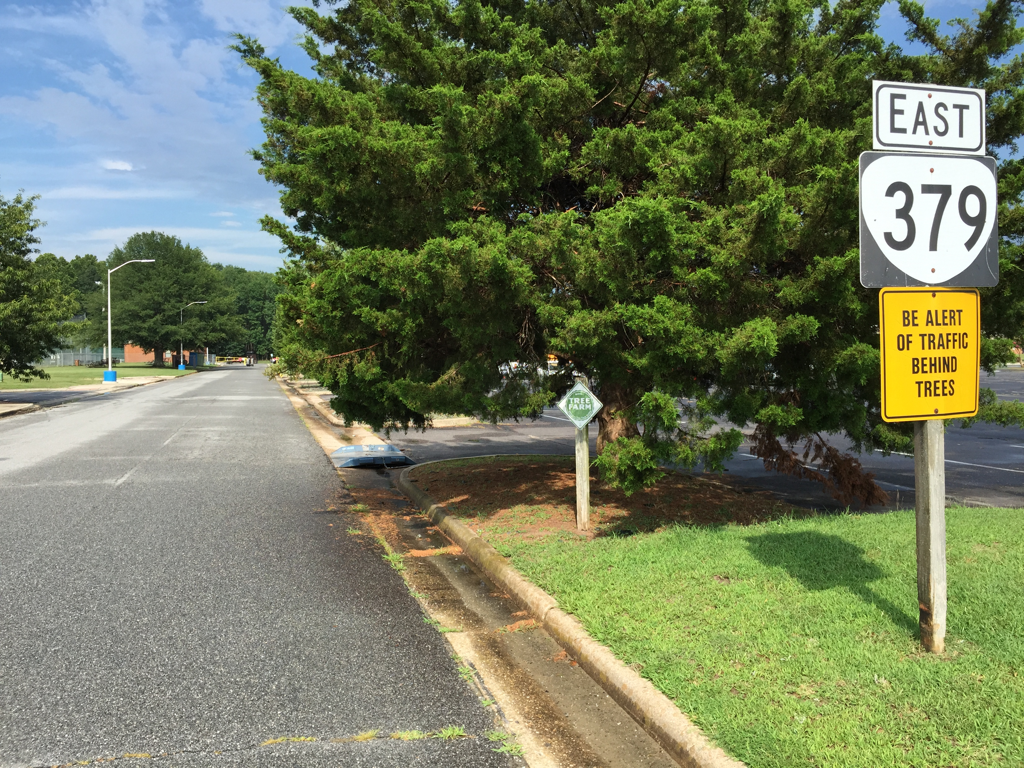 View east along Virginia State Route 379 at College Drive (Virginia State Secondary Route 641) at the Paul D. Camp Community College in Franklin, Virginia